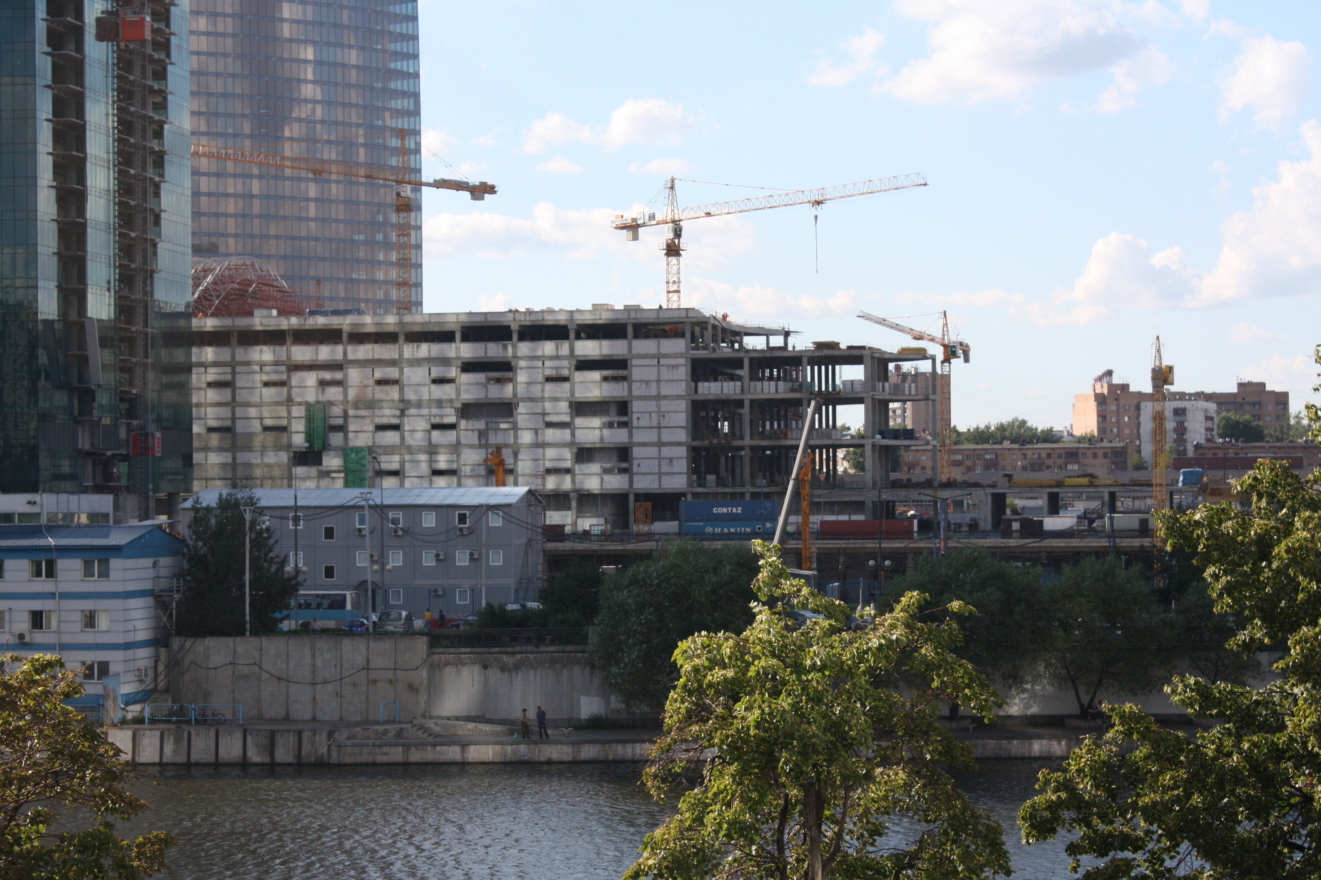 Zentral core.The begin of construction. 21 July 2008/